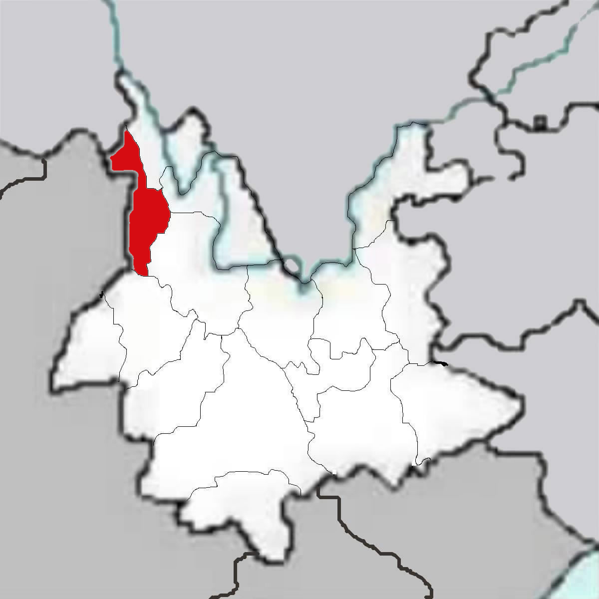 Yunan(云南) Province of China